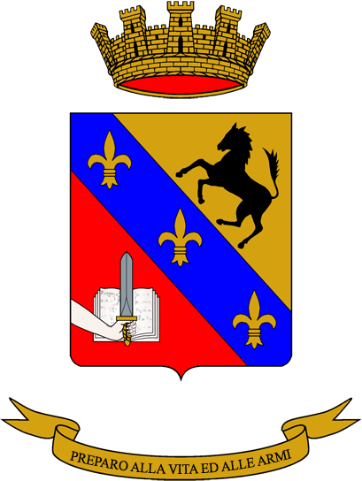 Coat of Arms of the Nunziatella Military High School; Italian Army.